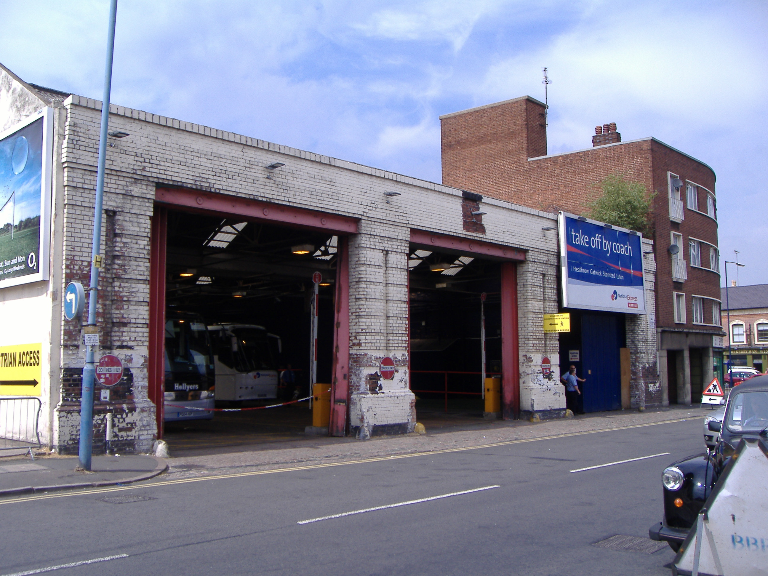 The side entrance of the original Digbeth Coach Station (since rebuilt) in the Digbeth area just outside of Birmingham City Centre, England.